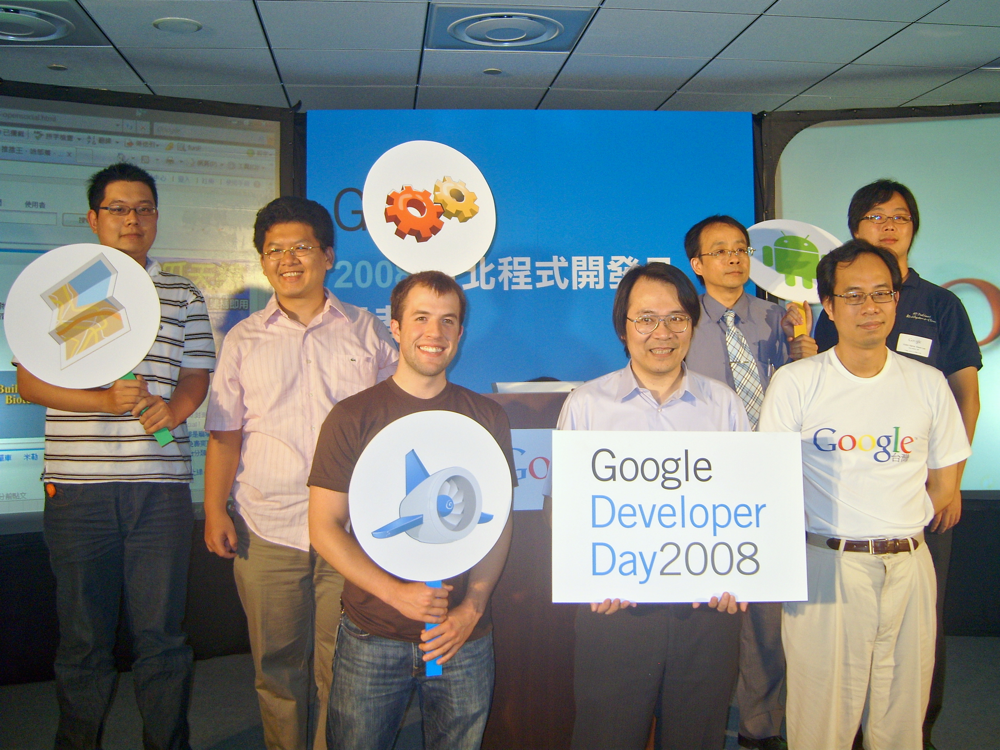 Press Conference of 2008 Google Developer Day in Taiwan.